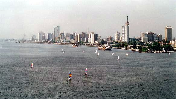 Lagos Island and part of Lagos Harbour, taken from close to Victoria Island, looking north-west (NB this is not Ikoyi Bay as wrongly labelled elsewhere)